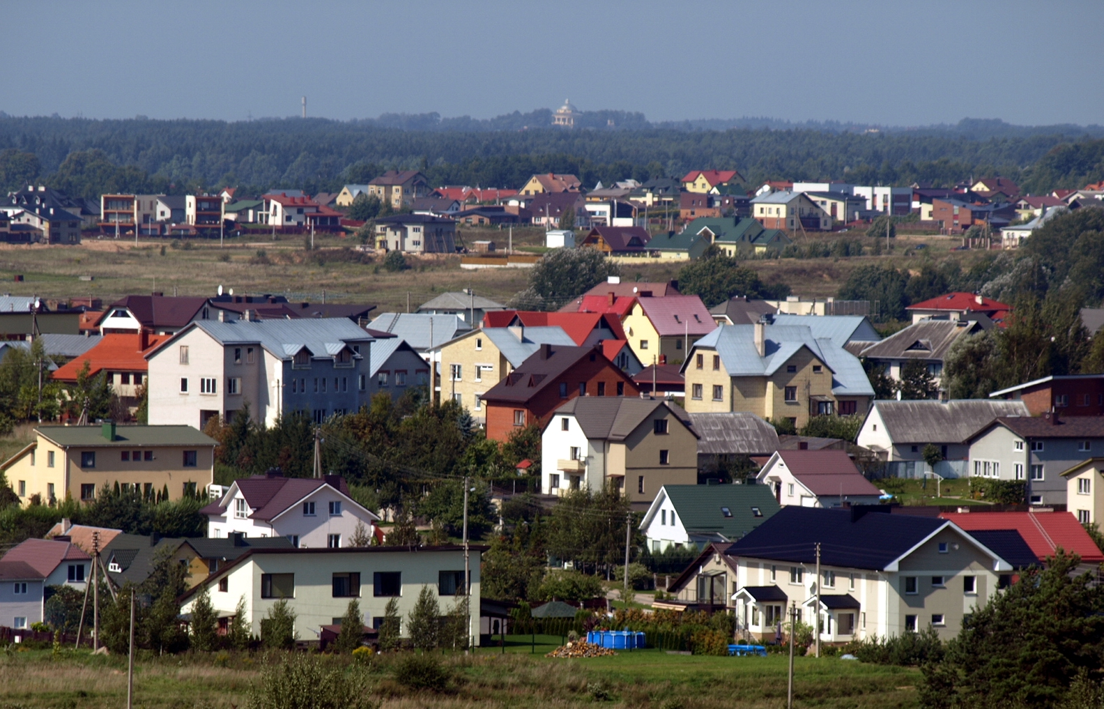 Fragment of Zujūnai, Vilnius district municipality, as seen from Pašilaičiai tower blocks, 2011 09